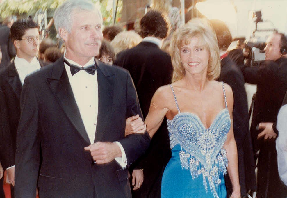 Ted Turner and Jane Fonda on the red carpet at the 62nd Annual Academy Awards, 3/26/90